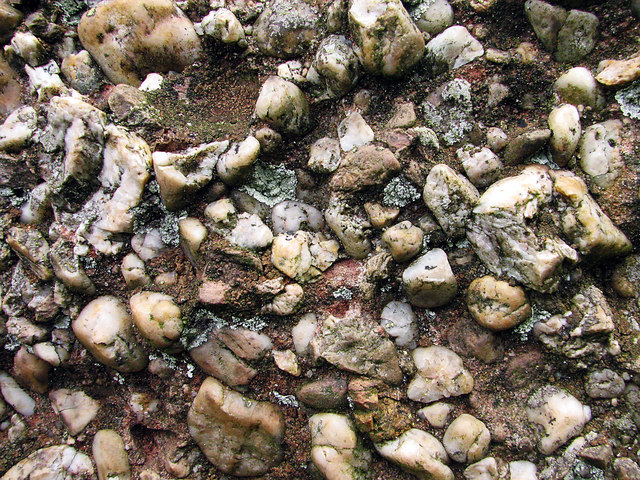 Conglomerate rock called puddingstone. This is a close view of a part of the largest of Harold's Stones.